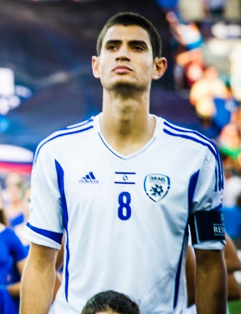 Omri Ben Harush, Boris Klaiman, Nir Biton during UEFA U-21 European Championships.